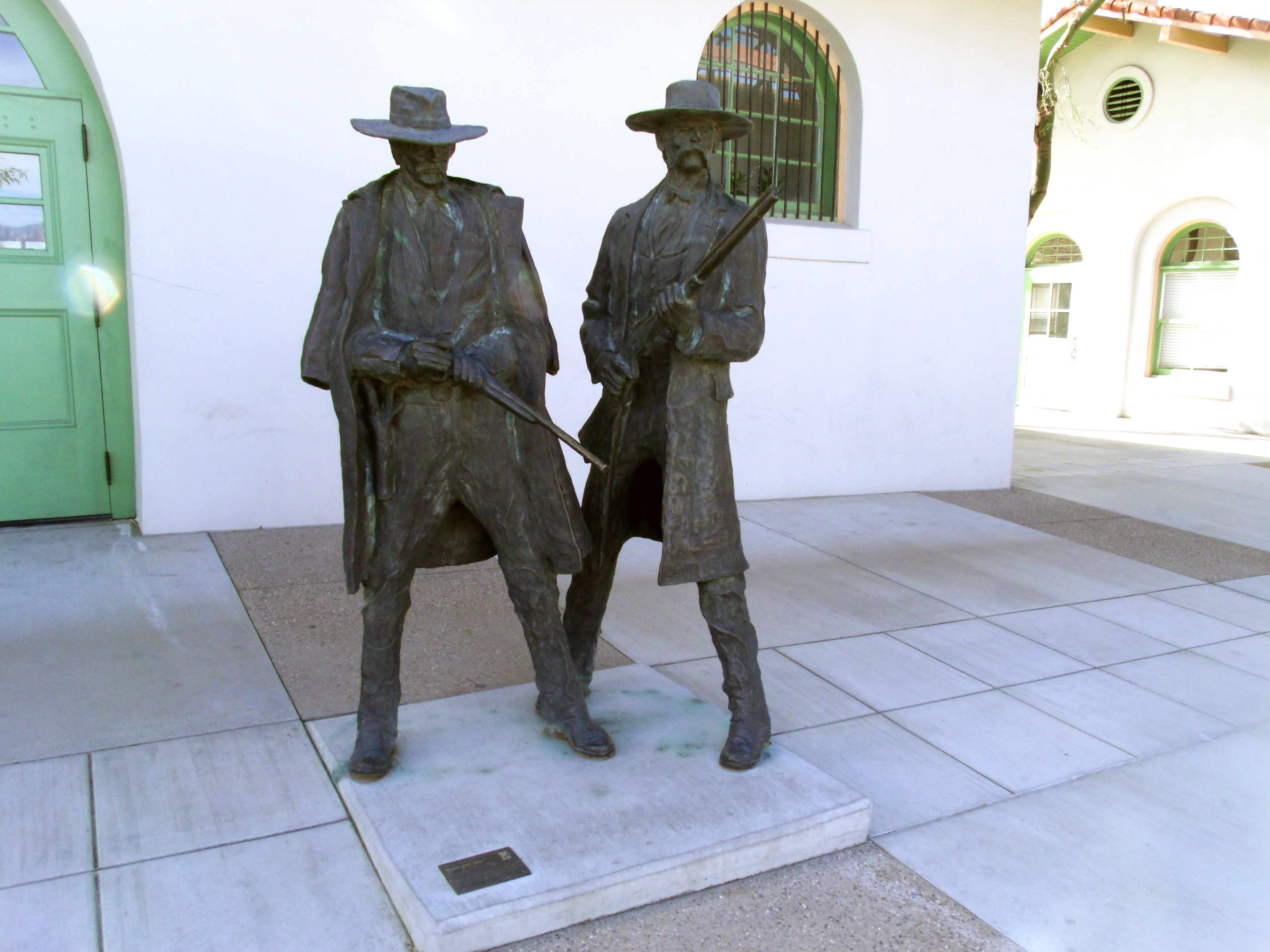 This is the location of the 1880s Tucson Depot. It was in this location where Frank Stilwell, suspected in the murder of Morgan Earp on March 18, 1882, was killed by Wyatt Earp in the company of Doc Holliday. The location is now the Amtrak Station which was listed in the National Register of Historic Places on October 15, 1999, under the name of "Tucson Warehouse Historic District", ref.: #97000886.